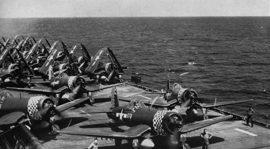 U.S. Marine Corps Vought F4U-1D Corsairs of Marine Fighter Squadron 312 (VMF-312) are about to be launched from the U.S. Navy escort carrier USS Hollandia (CVE-97) off Okinawa, Japan, in April 1945.